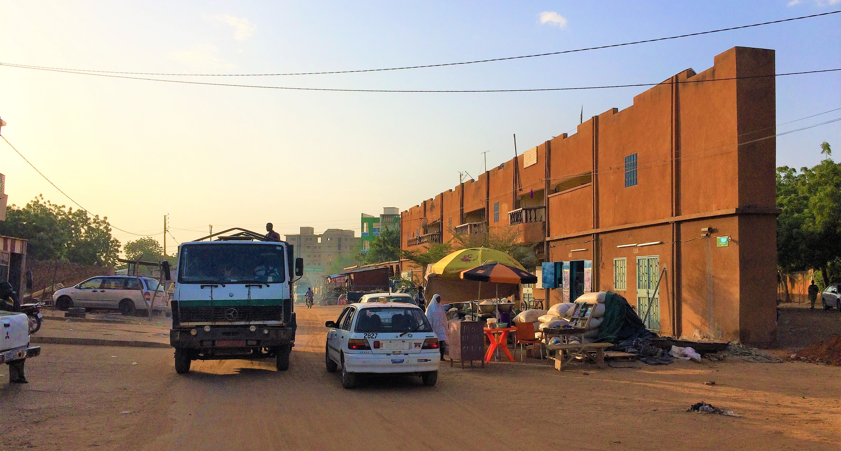 Sunset in the Rue du Nigéria (Rue NM-4) in the 'Nouveau Marché' neighborhood in Niamey, Niger.